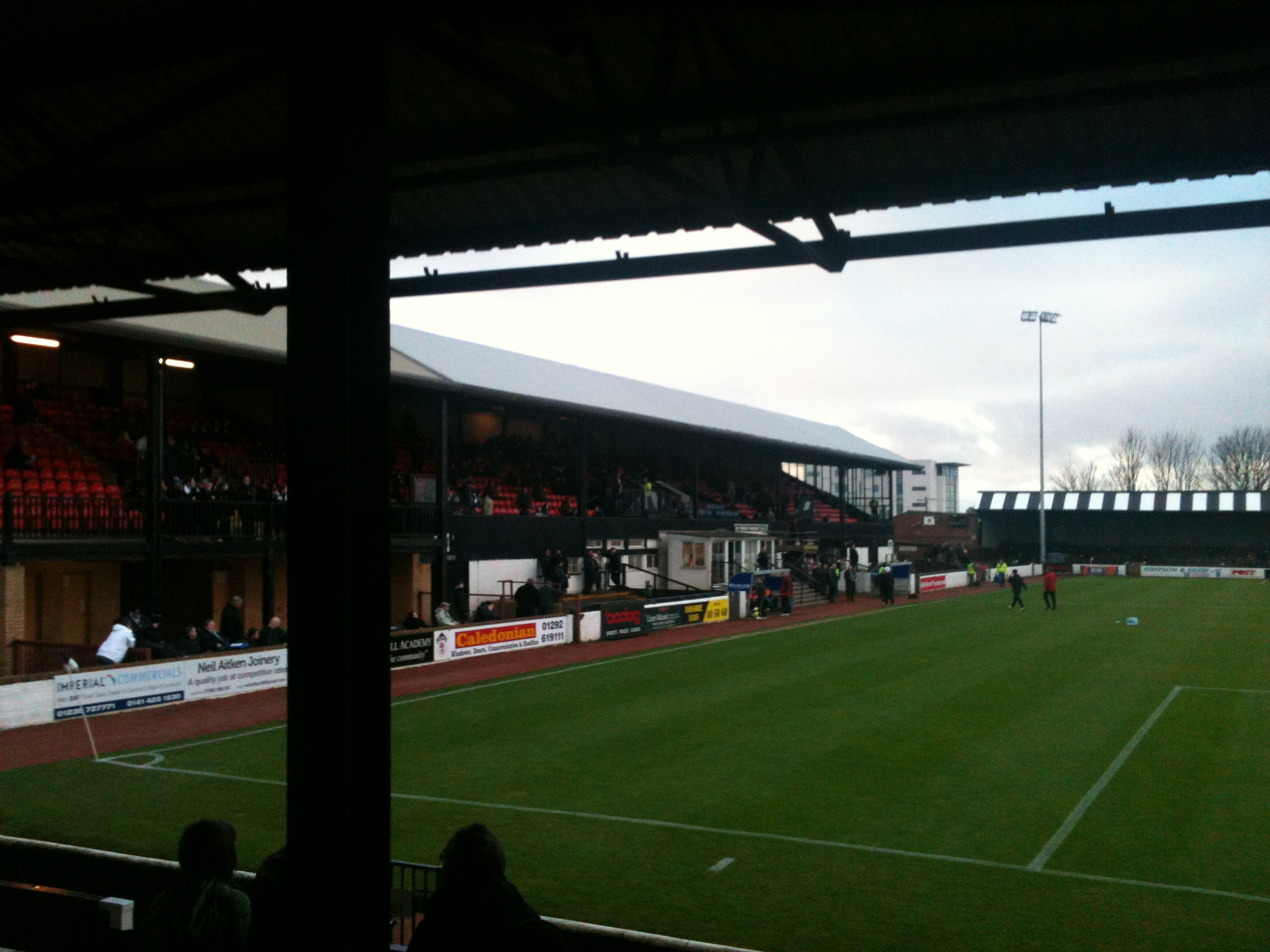 The main and only stand of Somerset Park, taken prior to kick against East Fife in 2012.